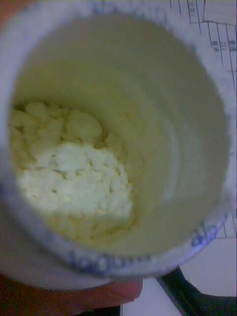 Light yellow samarium(III) oxide.